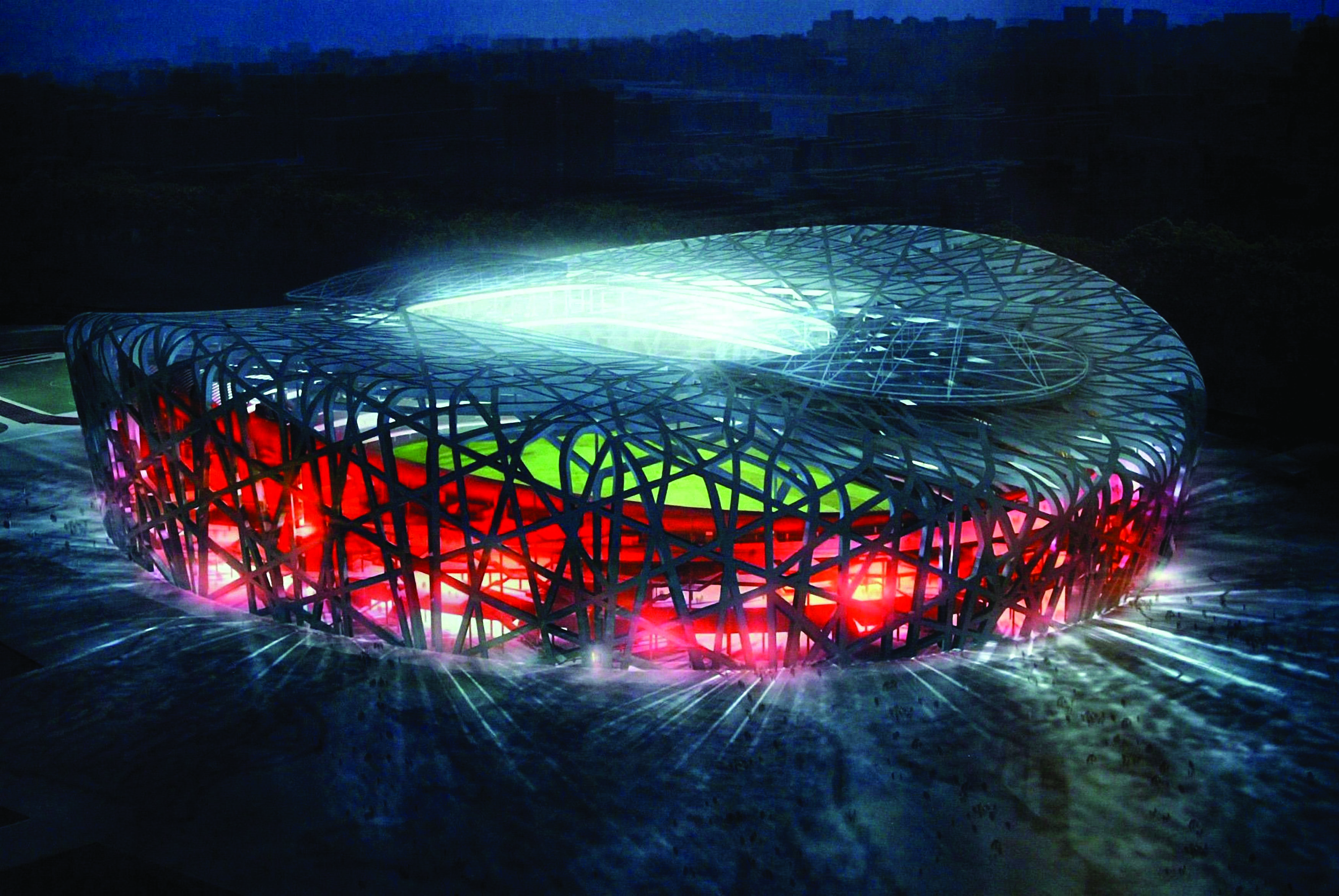 September 17, 2006, after two years of construction, the main venue for the 2008 Beijing Olympic Games came to a final and most important part of the construction of its steel structure: the dismantling of the temporary support towers.